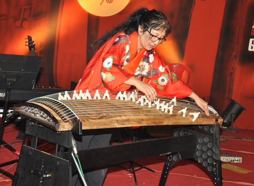 Miya Masaoka (born Washington, D.C., 1958) is an American musician and composer who performs on the 17-string Japanese koto zither, performing at Kollam Jan 2012